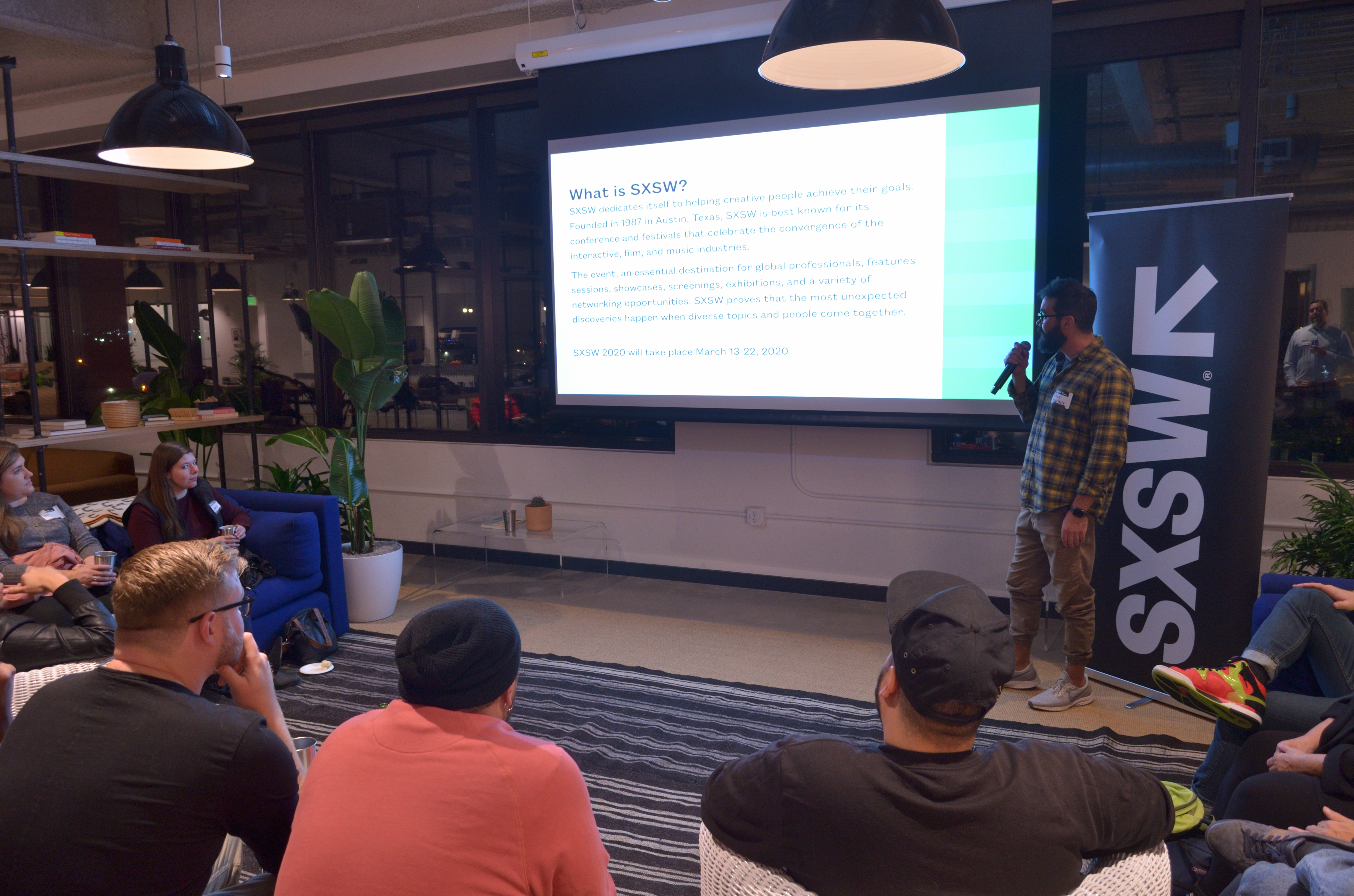 "Denver, CO: SXSW 2020 Community Meet Up @ WeWork" event at WeWork The Hub (Address: 3601 Walnut Street, Denver, CO 80205)